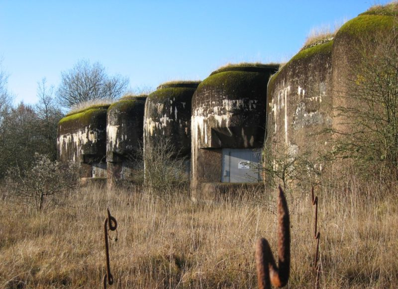 Bloc 5 of the big Ouvrage Rochonvillers.